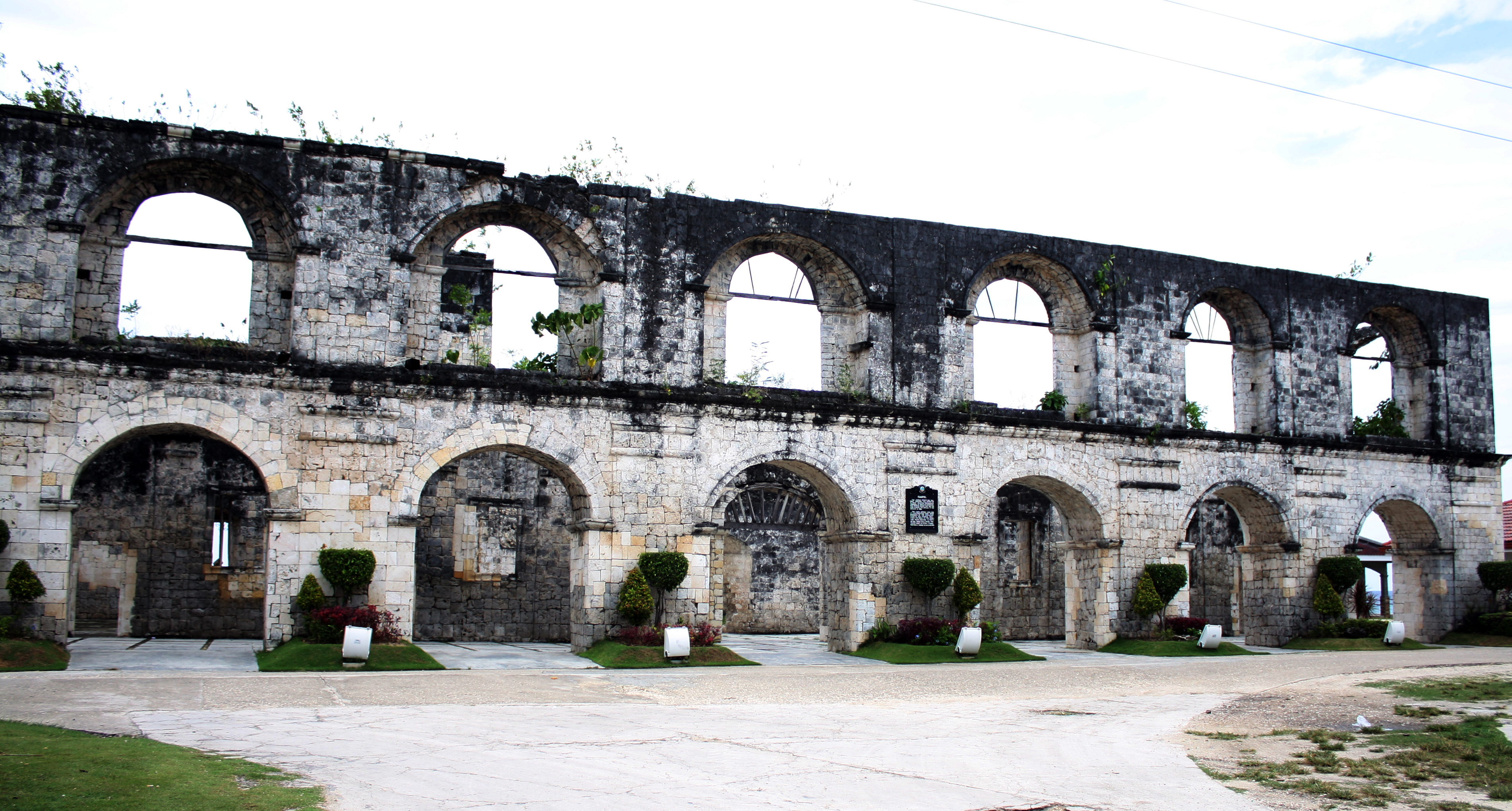 The Old Spanish Cuartel - this fort has fortified settlement walls with five bastions still remaining.